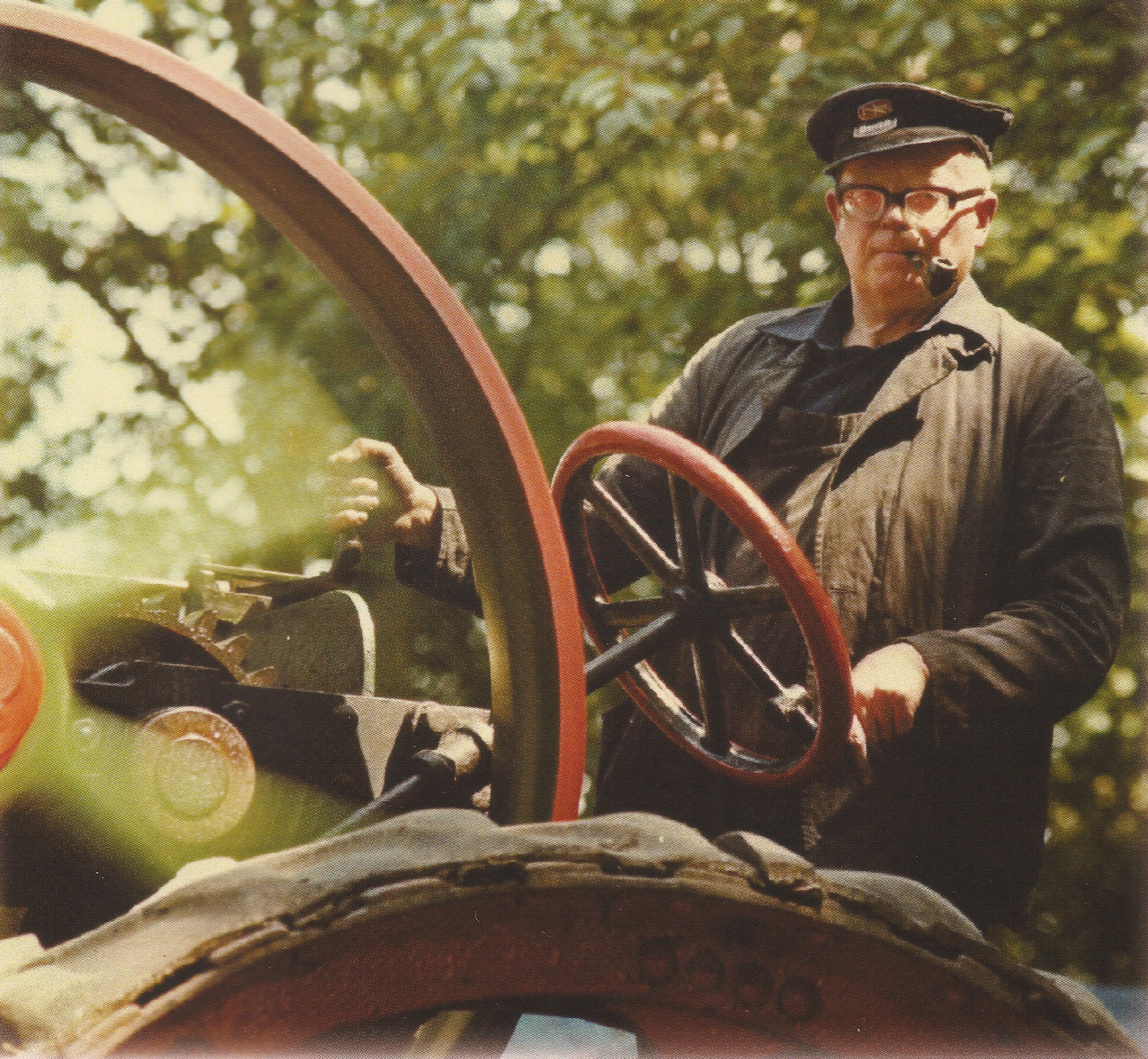 Wallace Ross Driving scanned